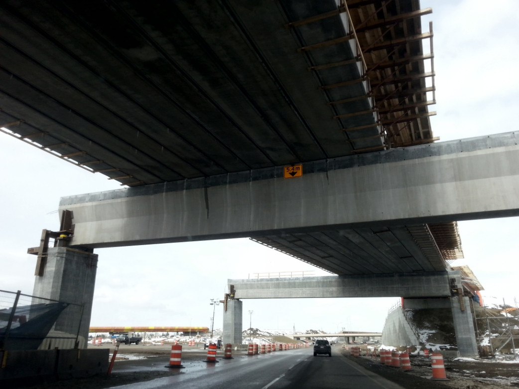 Northbound Deerfoot Trail during Stoney Trail construction in Calgary, Alberta.